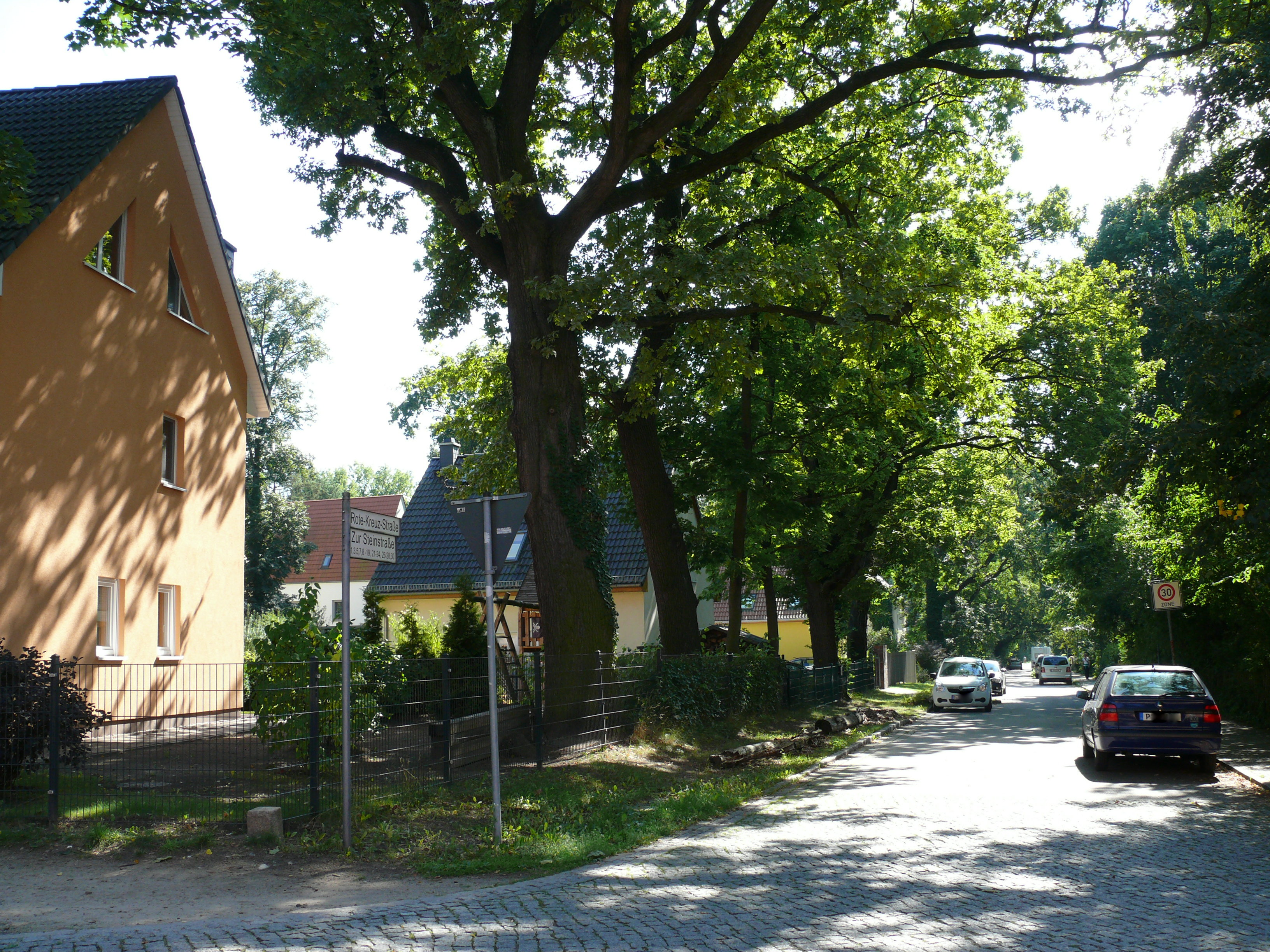 Berlin-Wannsee Rote-Kreuz-Straße